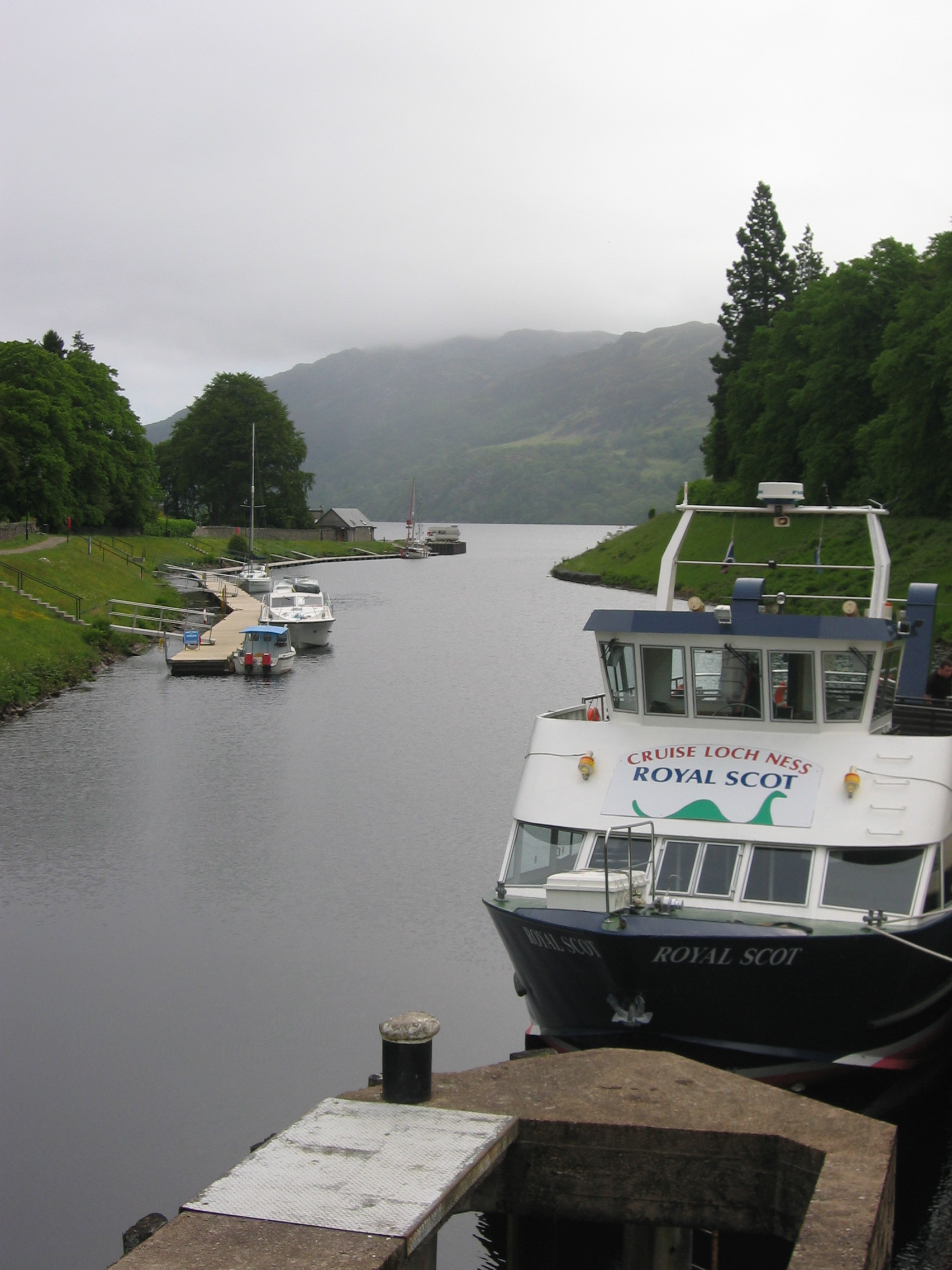 Loch Ness, Fort Augustus, Highlands, Scotland